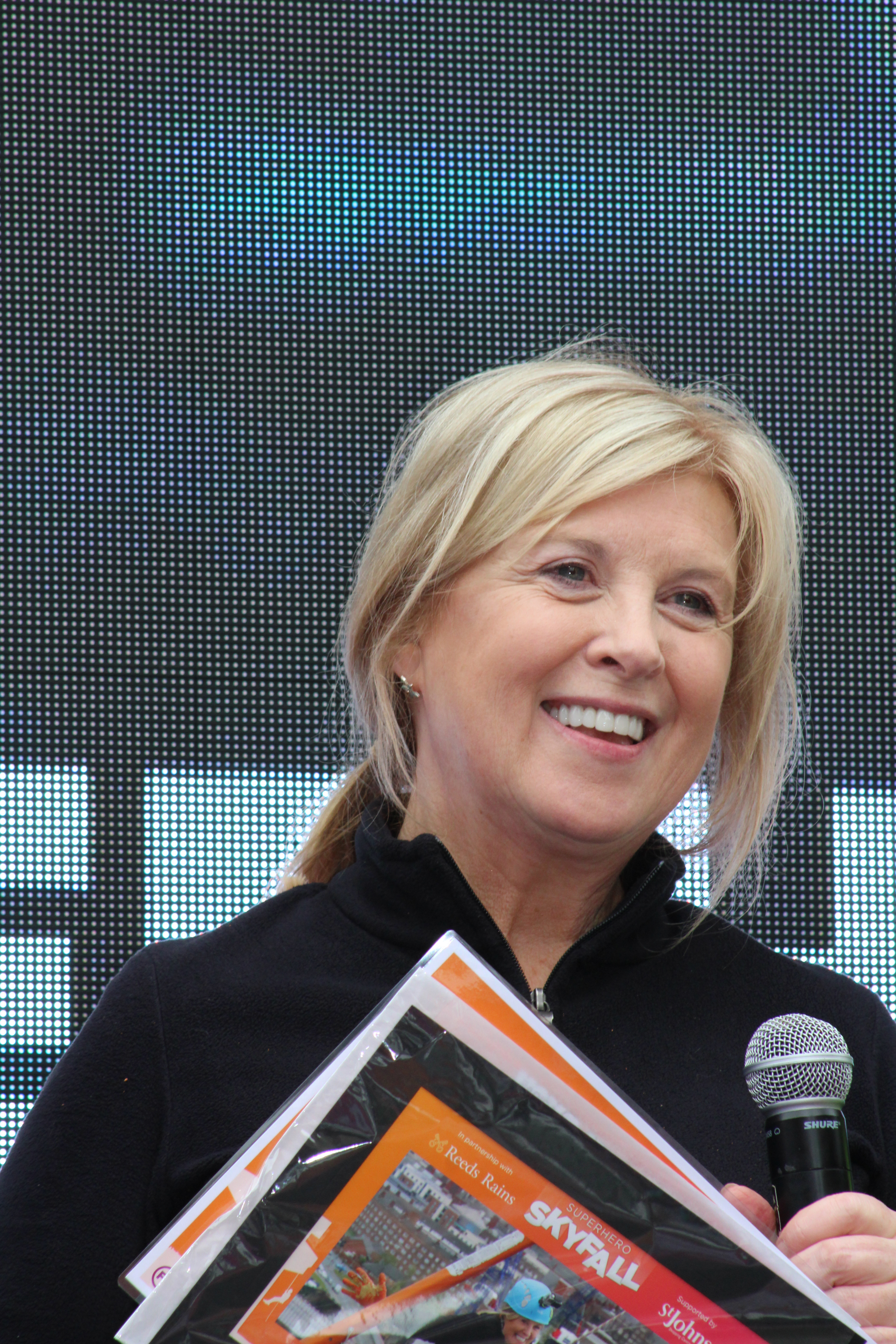 Lucy Meacock on stage after her abseil down St John's Beacon.